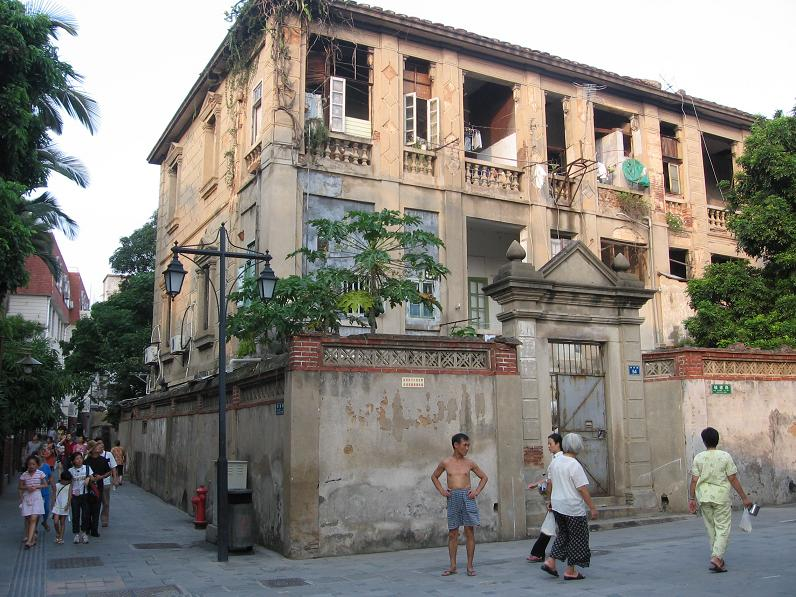 Gulangyu Island (鼓浪屿), offshore the city of Xiamen (厦门), Fujian, China. Taken by Ariel Steiner.